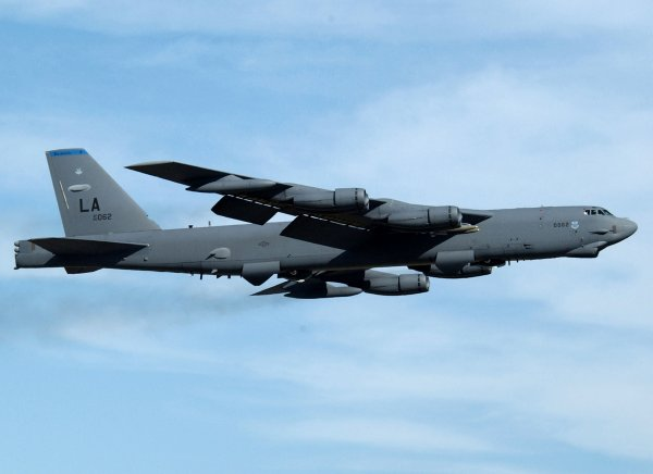 B-52H of the 3d Bomb Wing, Barksdale AFB, LA